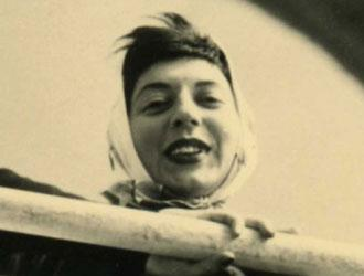 Cesarina Vighy